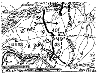 Map detailing the start positions of the Australian battalions prior to the First Battle of Morlancourt